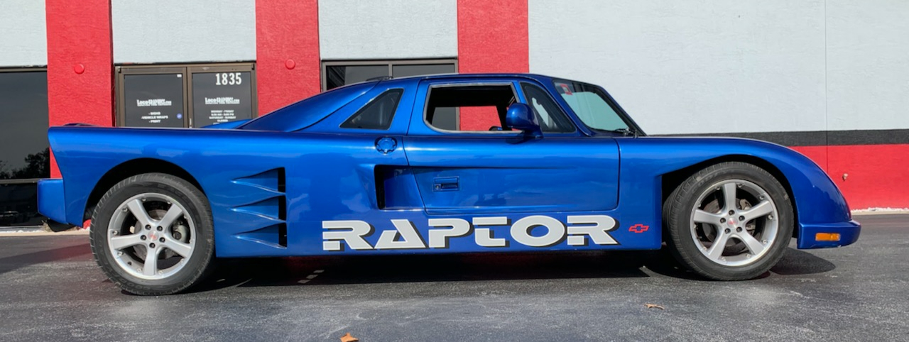 Mosler raptor pictures